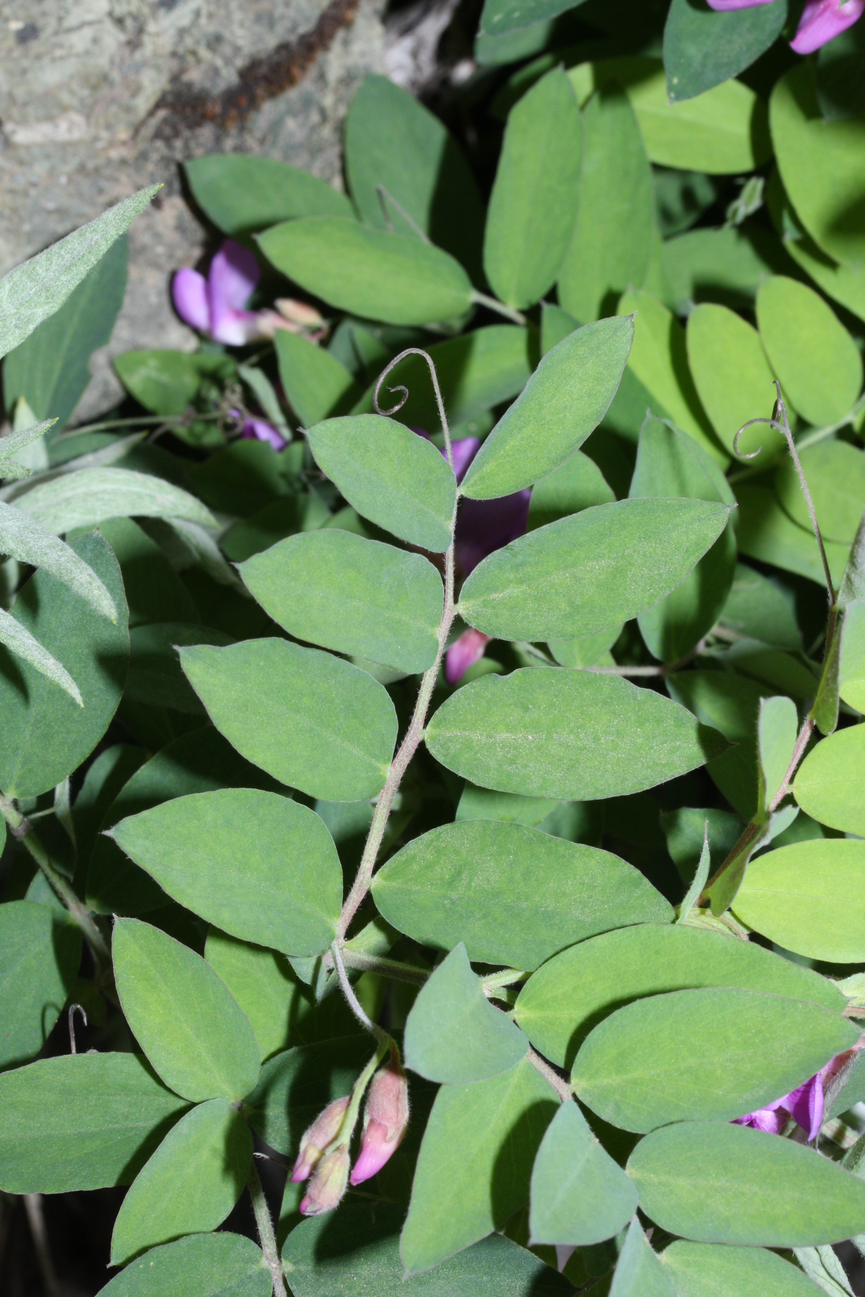 American Vetch